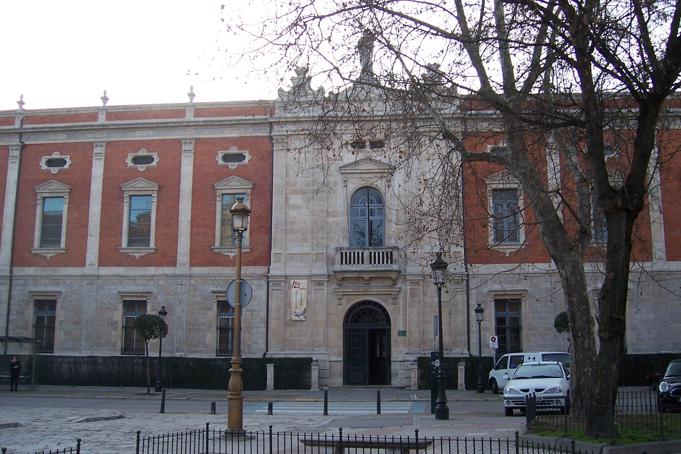 Facade of the jesuit school of San José, in Valladolid. It is one of the examples of eclectic architecture in those times (1882-1884). Author: Jerónimo and Antonio Ortiz de Urbina.